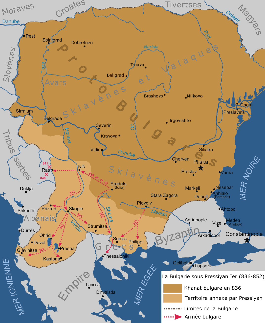 Bulgarian under Presian I (836-852) - French version